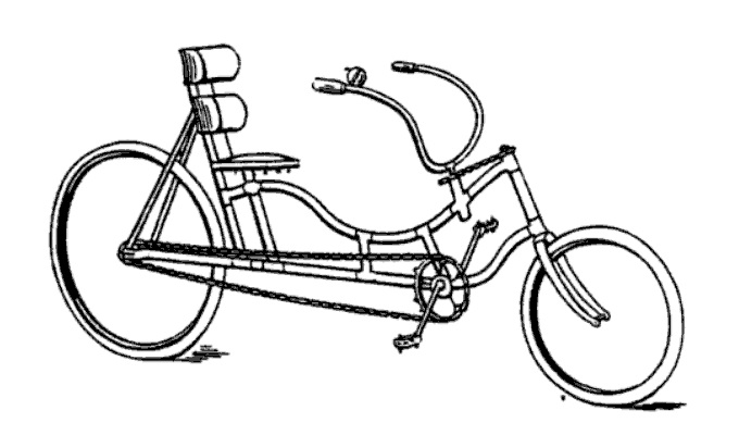 Brown's recumbent bicycle, 1900.